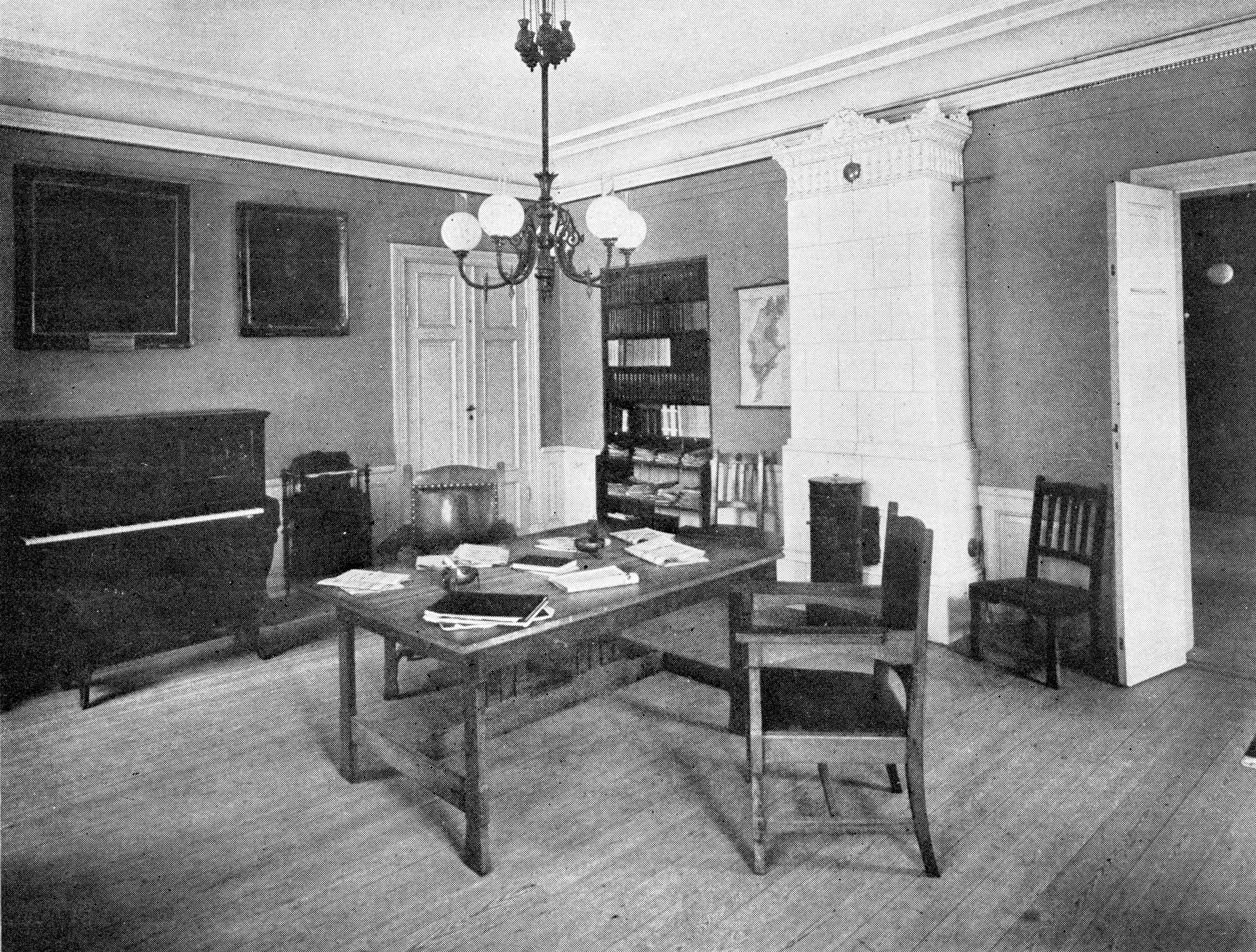 Gotlands Nation, Uppsala. First nation house. Nation hall.